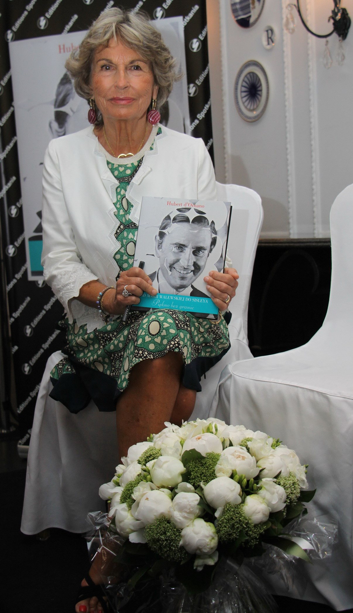 Izabela Potocka in Warsaw.